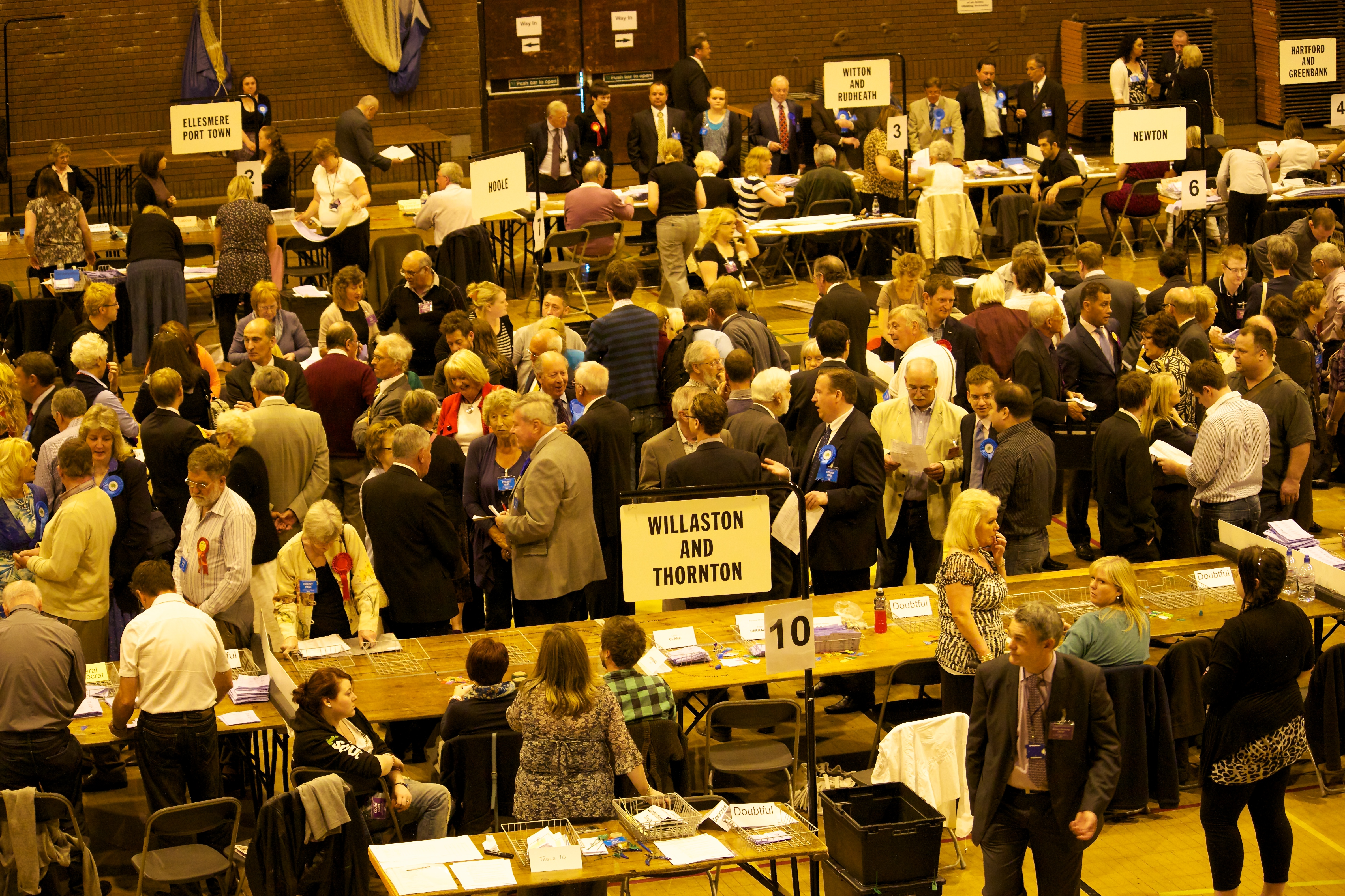 The count proceeds at the Northgate Arena in Chester for the local elections, AV referendum and parish elections. Count at CWaC Election 2011